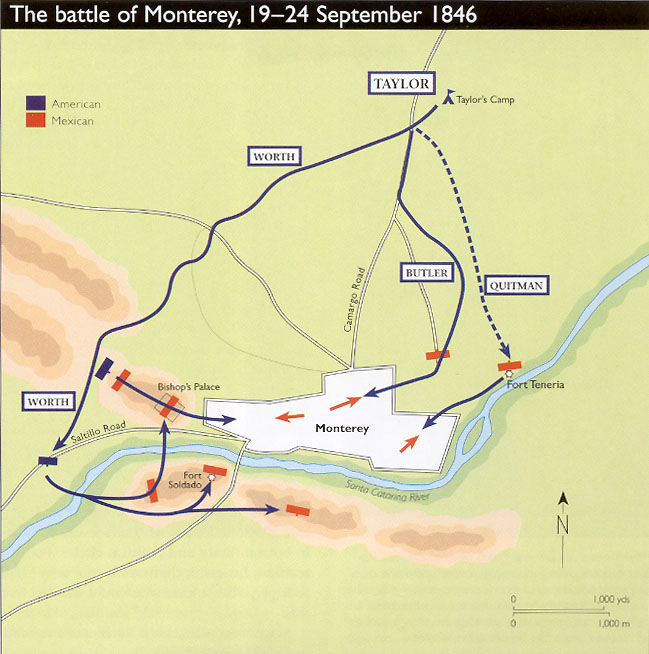 Battle of Monterrey 1846